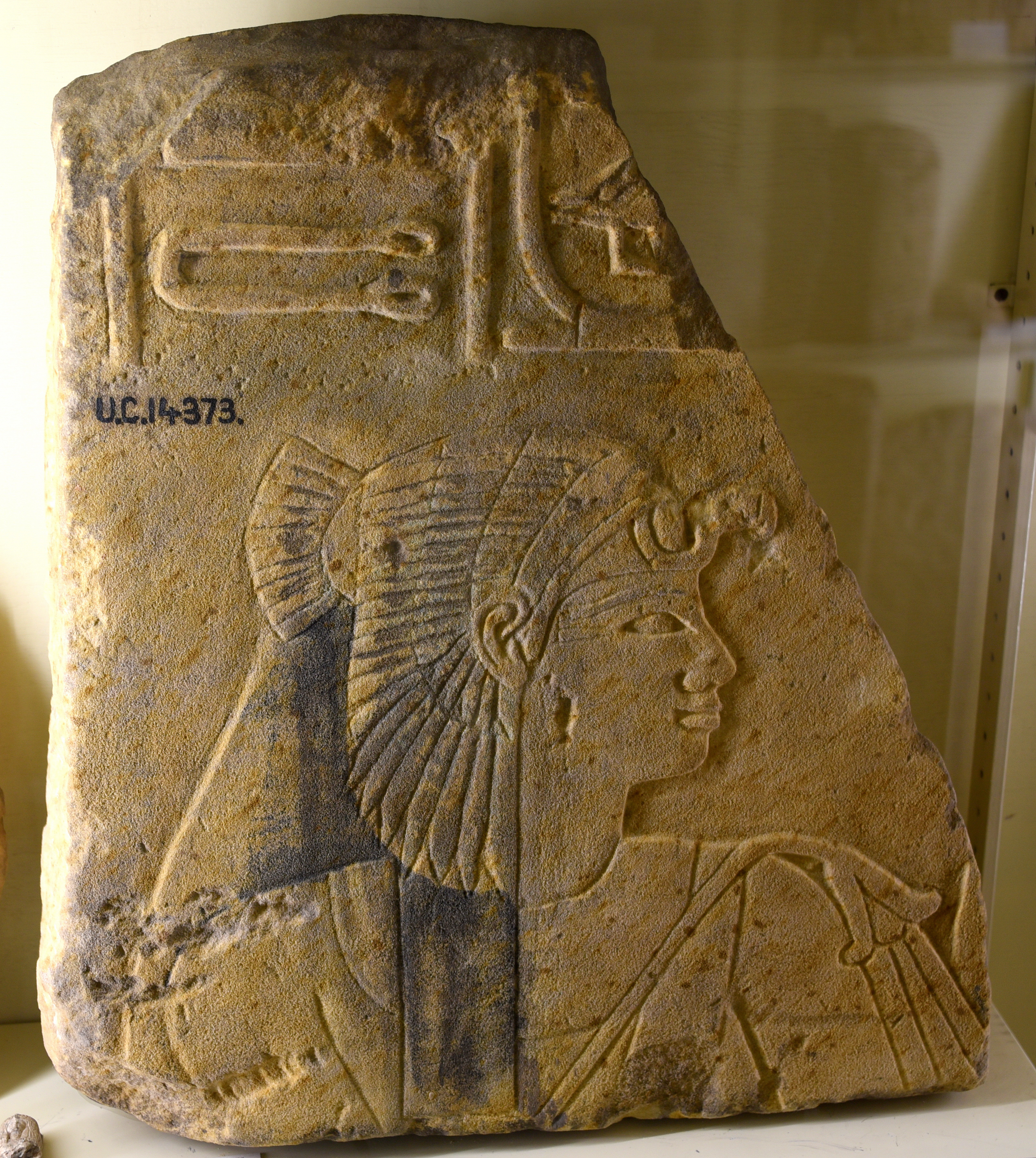 Fragment of a relief showing princess Sitamun (Sitamen), daughter of Amenhotep III. Her name appears in the cartouche. 18th Dynasty. From the mortuary temple of Amenhotep II at Thebes, Egypt. The Petrie Museum of Egyptian Archaeology, London. With thanks to the Petrie Museum of Egyptian Archaeology, UCL.